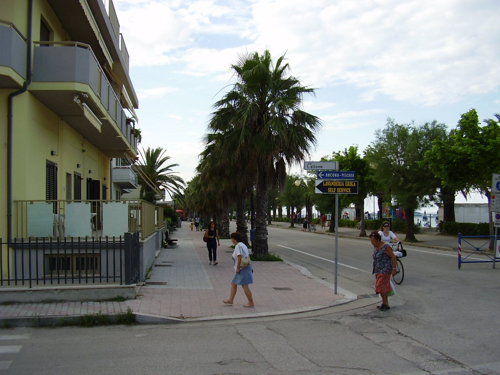 Promenáda